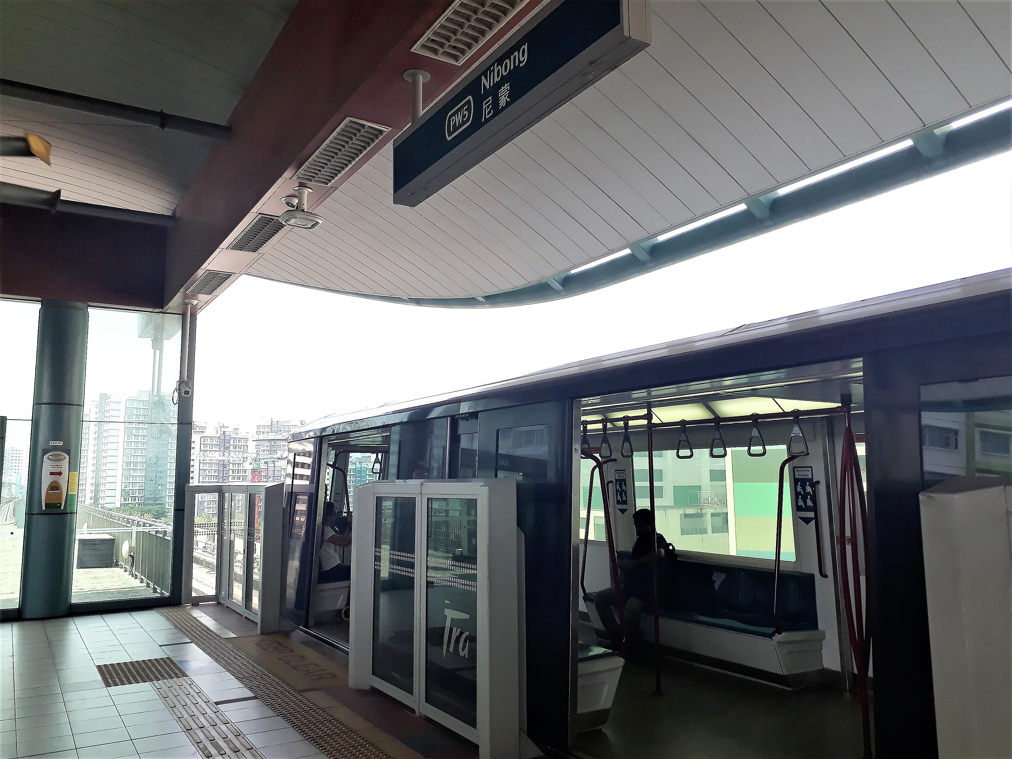 Platform 2 of Nibong